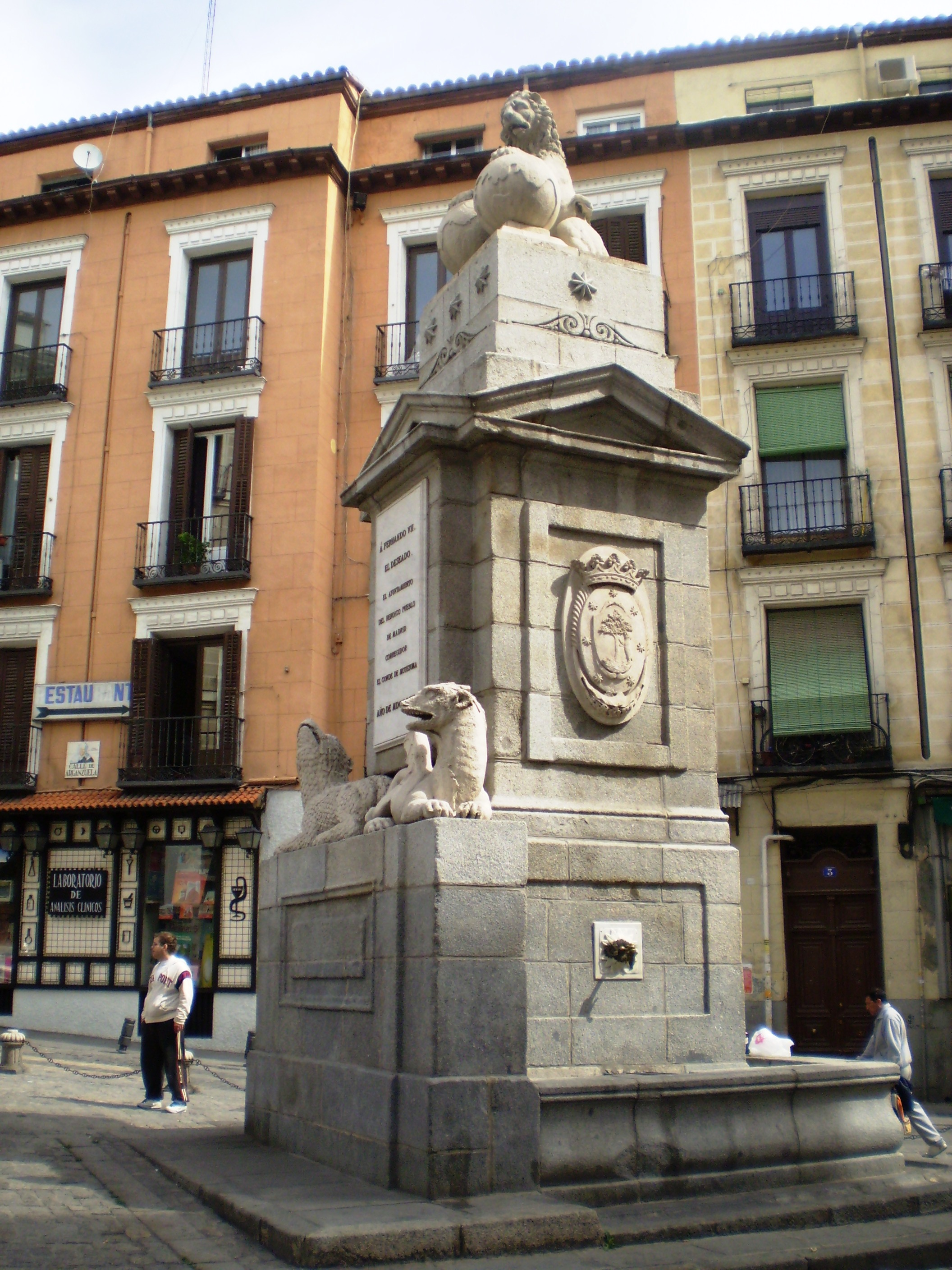 La Fuentecilla. 19th cent. fountain in Madrid, Spain.